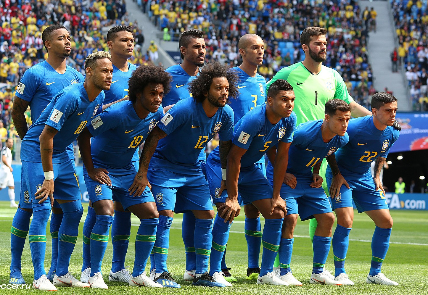 Brazil national association football team